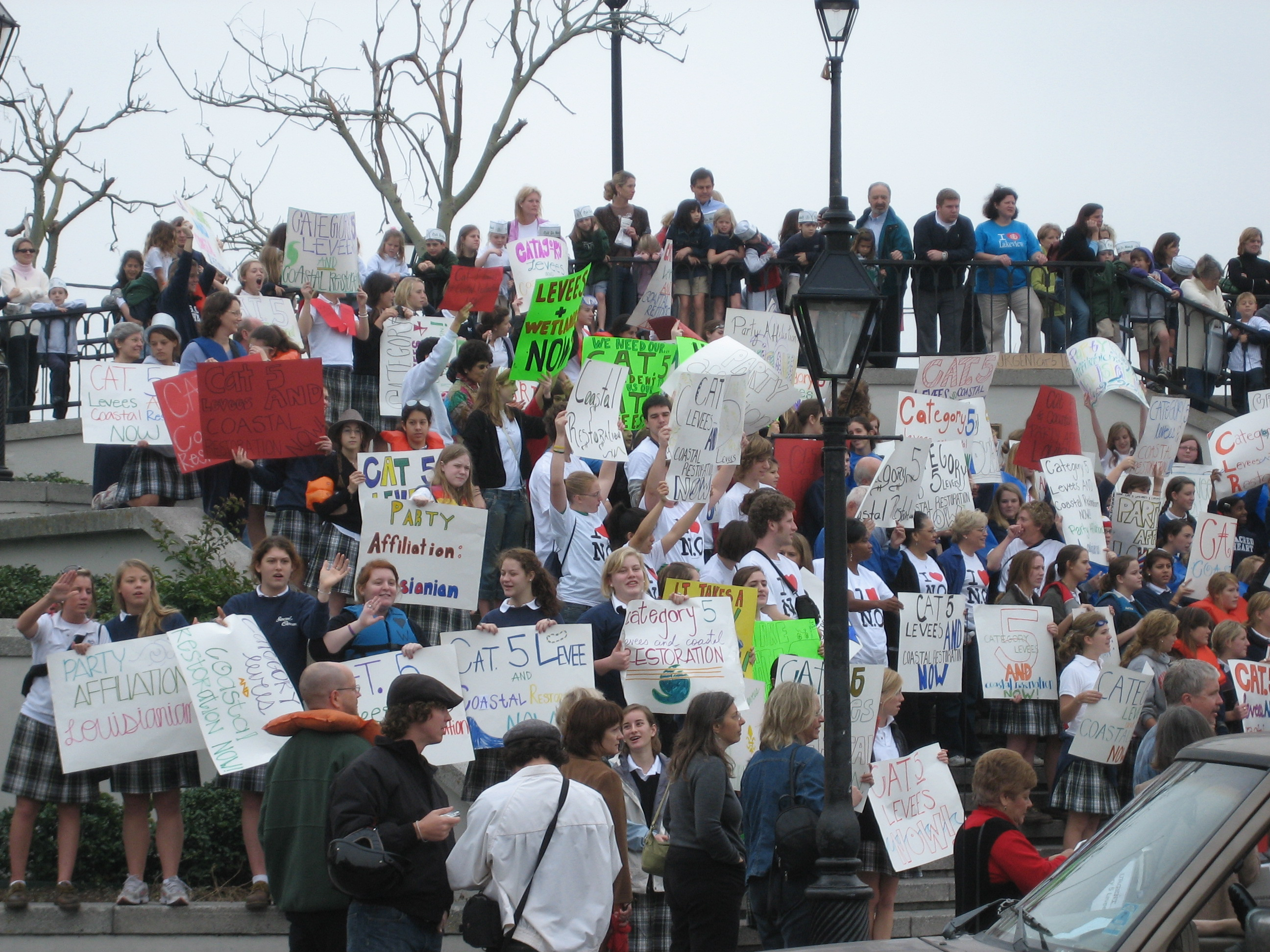 Rally for flood protection, French Quarter, New Orleans